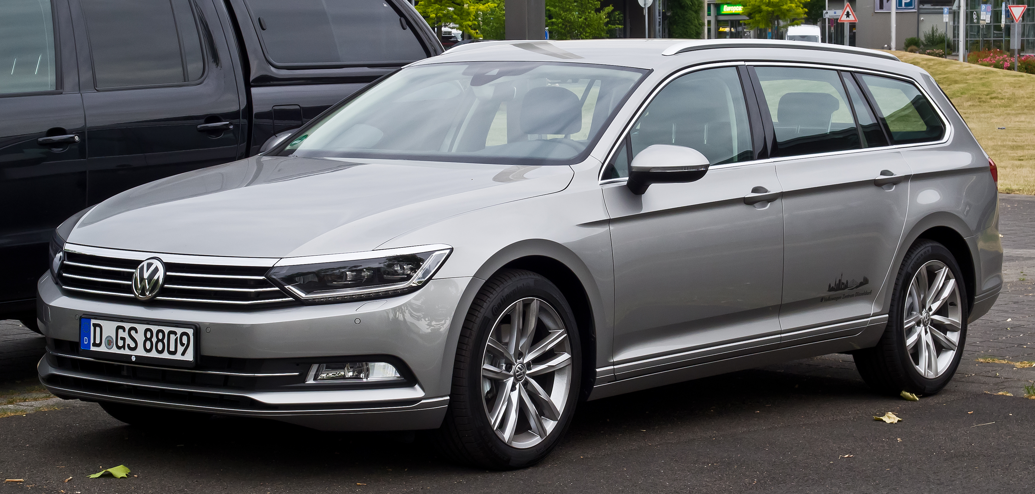 VW Passat Variant 2.0 TDI BlueMotion Technology Highline (B8)